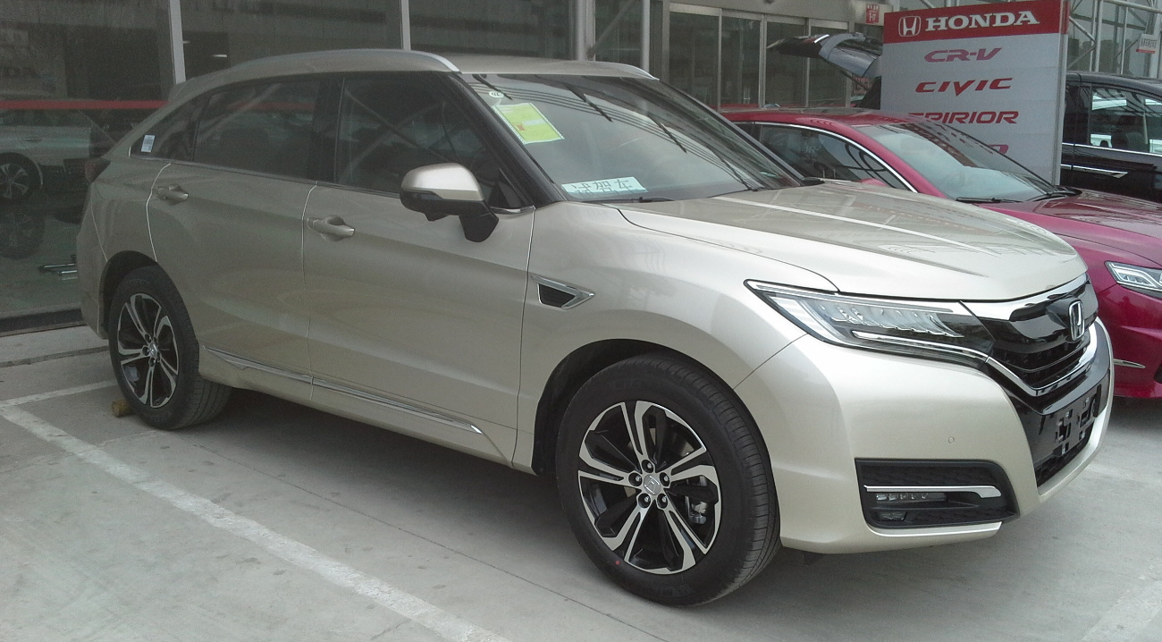 Honda UR-V photographed in Beijing, China.